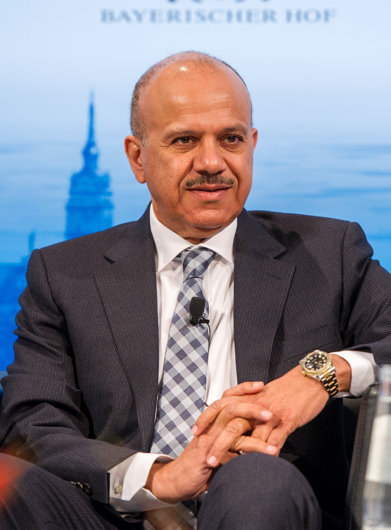 50th Munich Security Conference 2014: Abdullatif bin Rashid Al Zayani: Abdullatif bin Rashid Al Zayani (Secretary General, Cooperation Council for the Arab States of the Gulf).